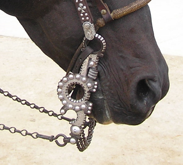 The shank of a classic spade bit, note extensive silver ornamentation on a working horse bit.